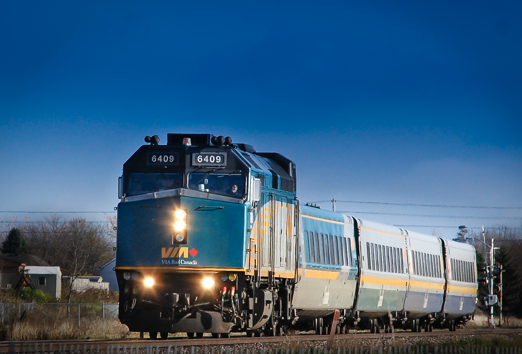 VIA in South Nepean